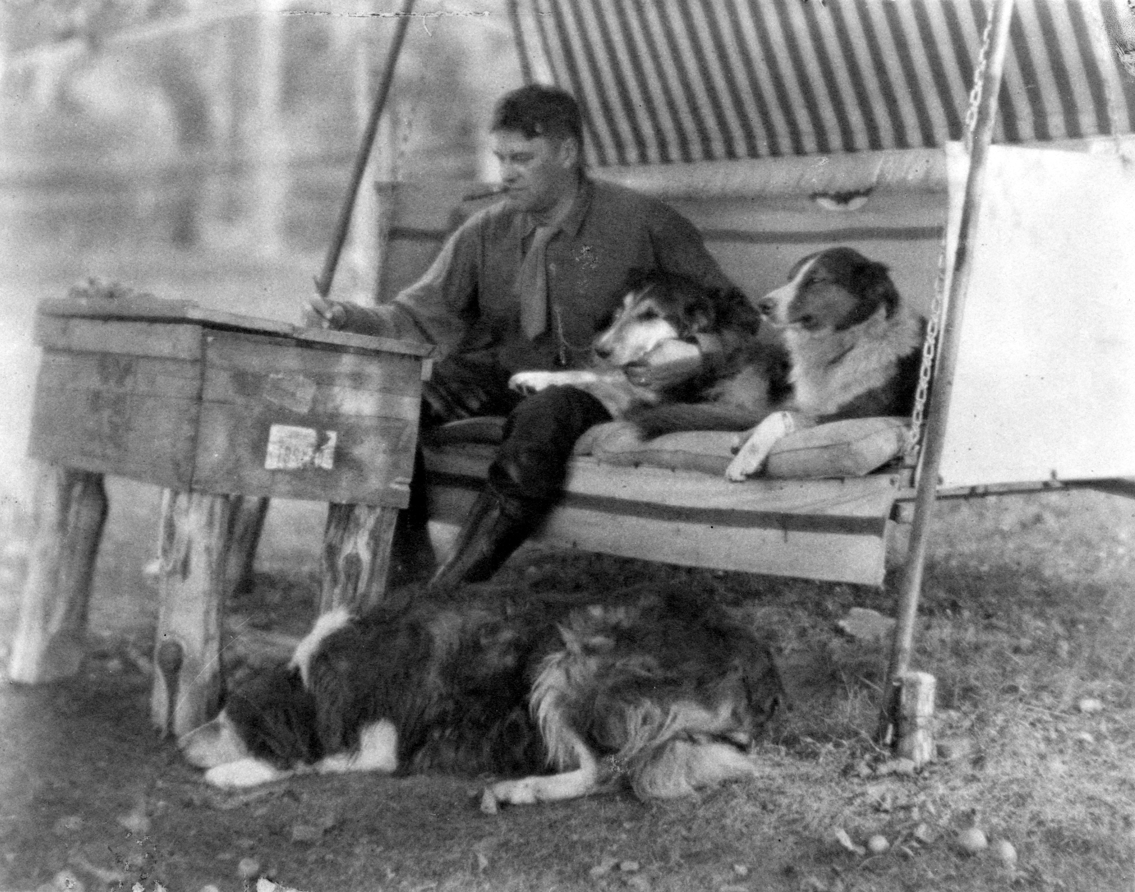 Albert Payson Terhune, seated, outdoors, with three collies, Lad (lying on the floor), Bruce (rightmost collie), and Wolf (next to Terhune); this image was published in: Duren, George Bancroft; Dodge, Mary Mapes (ed) (March 1922). "The Sunnybank Collies". St. Nicholas 49 (5): p. 523. New York, United States: The Century Company. Retrieved on 2010-06-03.